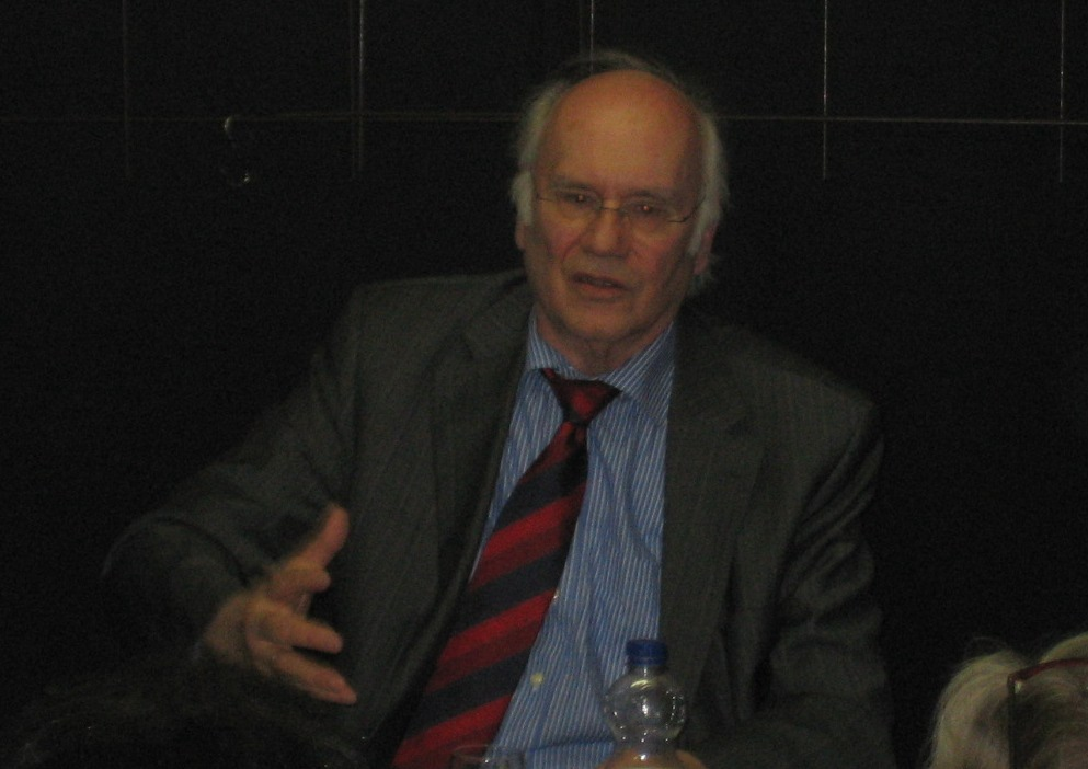 Wolbert K. Smidt (former director of the Bundesnachrichtendienst) giving a lecture "Agenten für die Freiheit - über die Differenz zwischen den Geheimdiensten der Demokratie und der Diktatur" at the Gedenkbibliothek zu Ehren der Opfer des Stalinismus in 2009